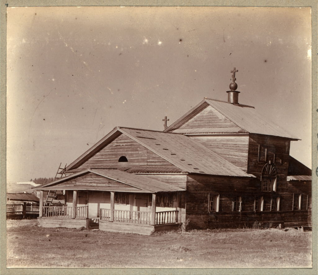 St. Nicholas Verkhotursky monastery